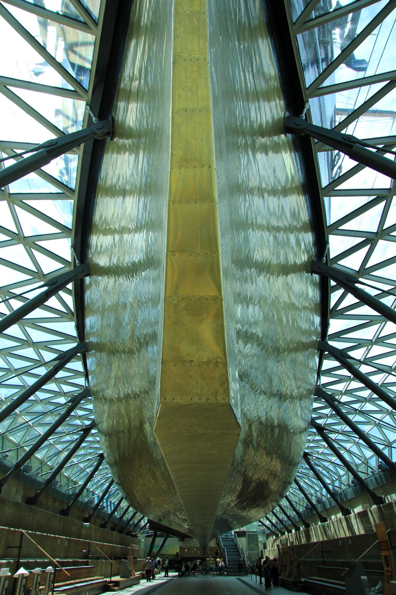 Cutty Sark, King William Walk, Greenwich, London SE10 9HT Badly damaged by fire on 21 May 2007 while undergoing conservation Cutty Sark was relaunched on 25 April 2012 opening a new chapter in the extraordinary life of one of the world’s most famous ships. Built in 1869 for the Jock Willis shipping line, she was one of the last tea clippers to be built, the last surviving and the fastest and greatest of her time, she is a living testimony to the bygone, glorious days of sail and, most importantly, a monument to those that lost their lives in the merchant service. Venture aboard and beneath one of the world’s most famous ships. Walk along the decks in the footsteps of the merchant seamen who sailed her over a century ago. Explore the hold where precious cargo was stored on those epic voyages then marvel as you balance a 963-tonne national treasure on just one hand.